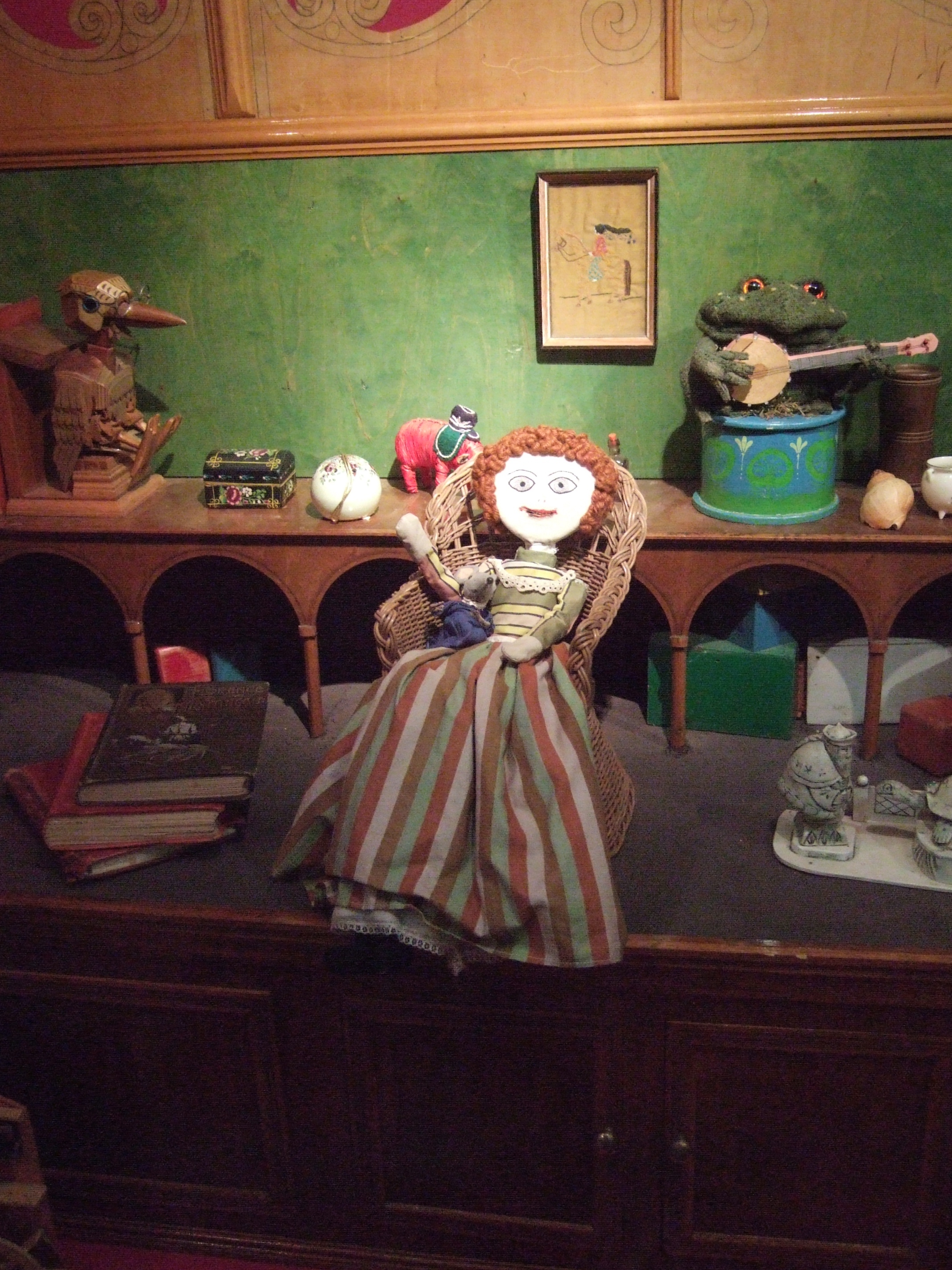 Characters of the children's televisions series "Bagpuss"